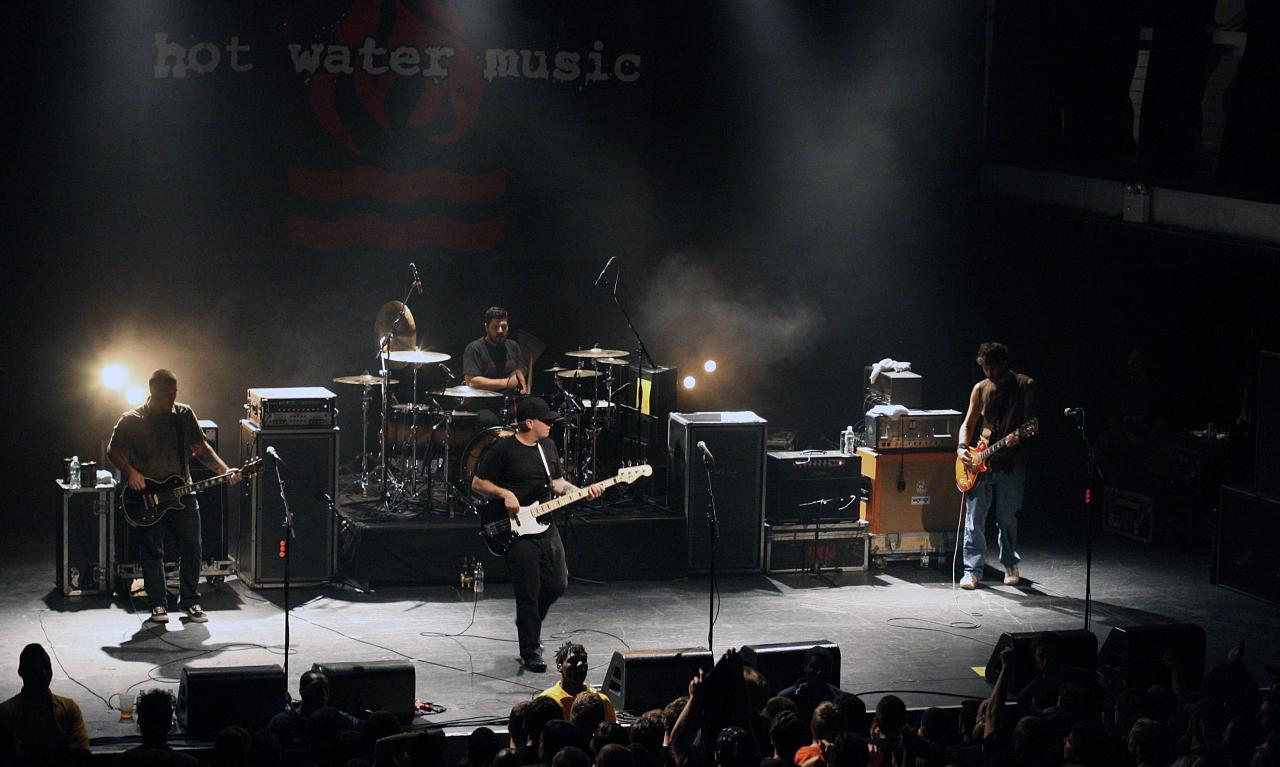 front, l2r: Ragan (guitar), Black (bass), Wollard (guitar).